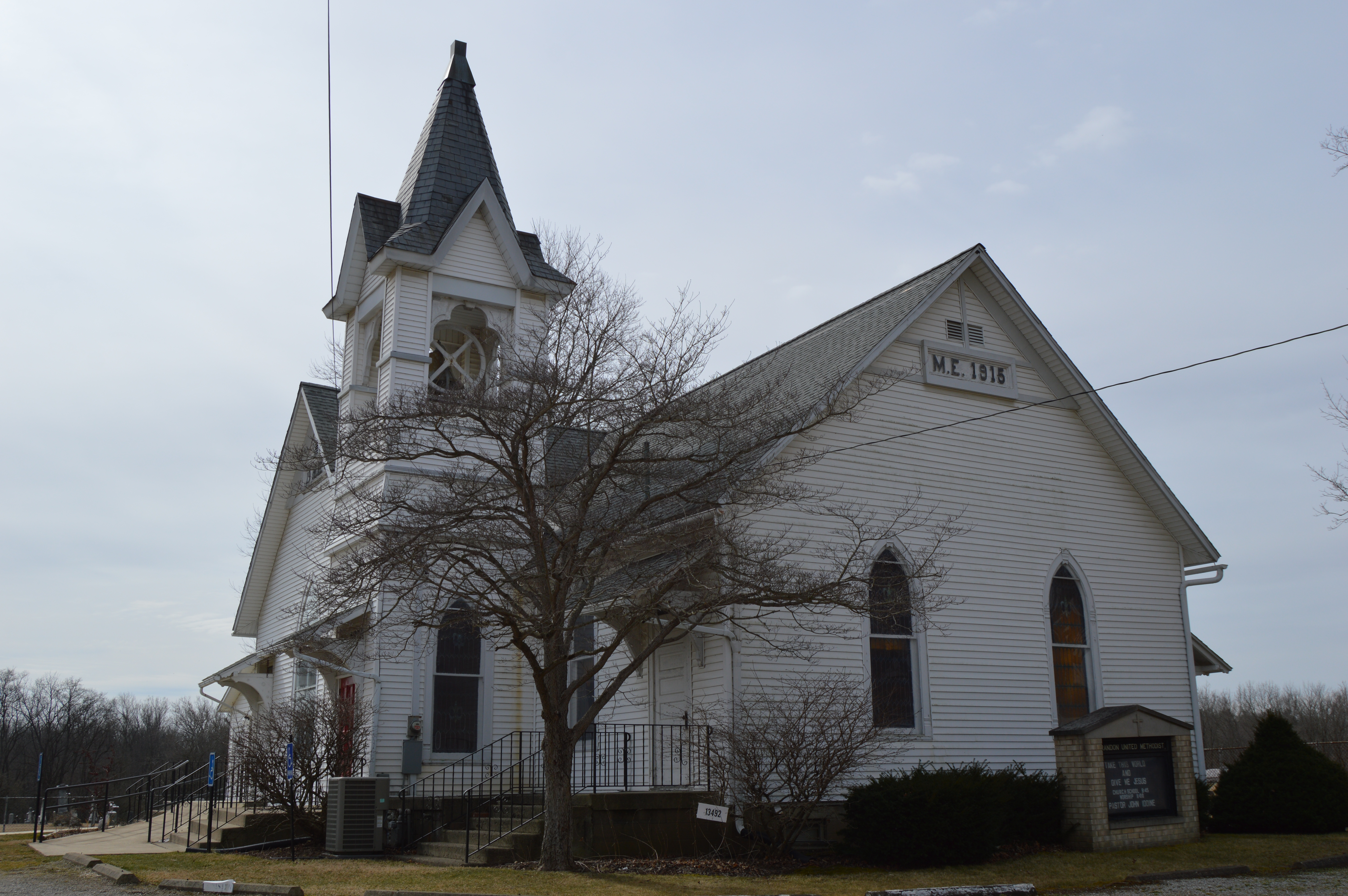 Front and eastern side of Brandon United Methodist Church, located at 13492 Sycamore Road in Brandon, Ohio, United States.